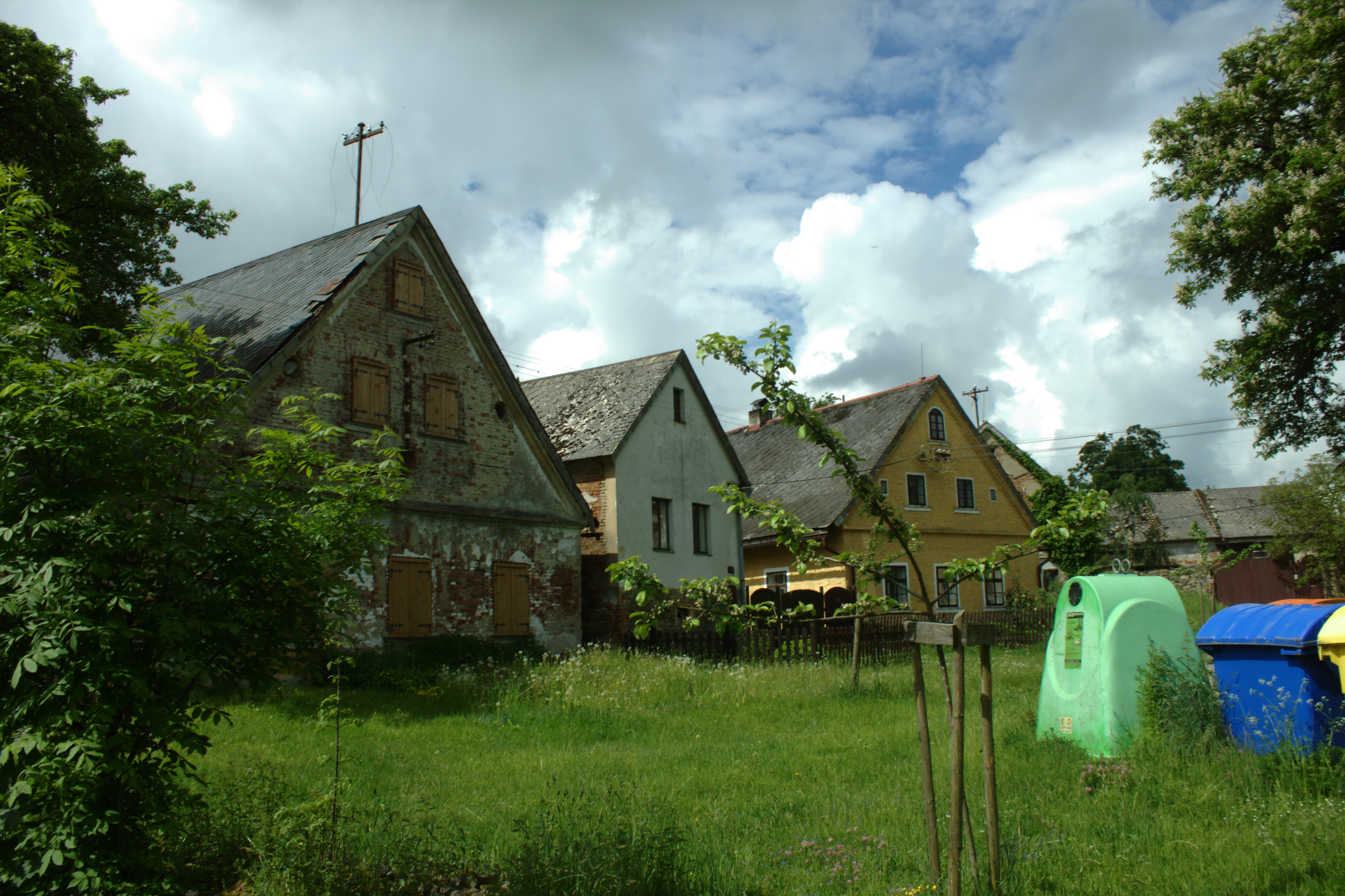 Buildings on a common in the village of Rankovice, Karlovy Vary Region, CZ